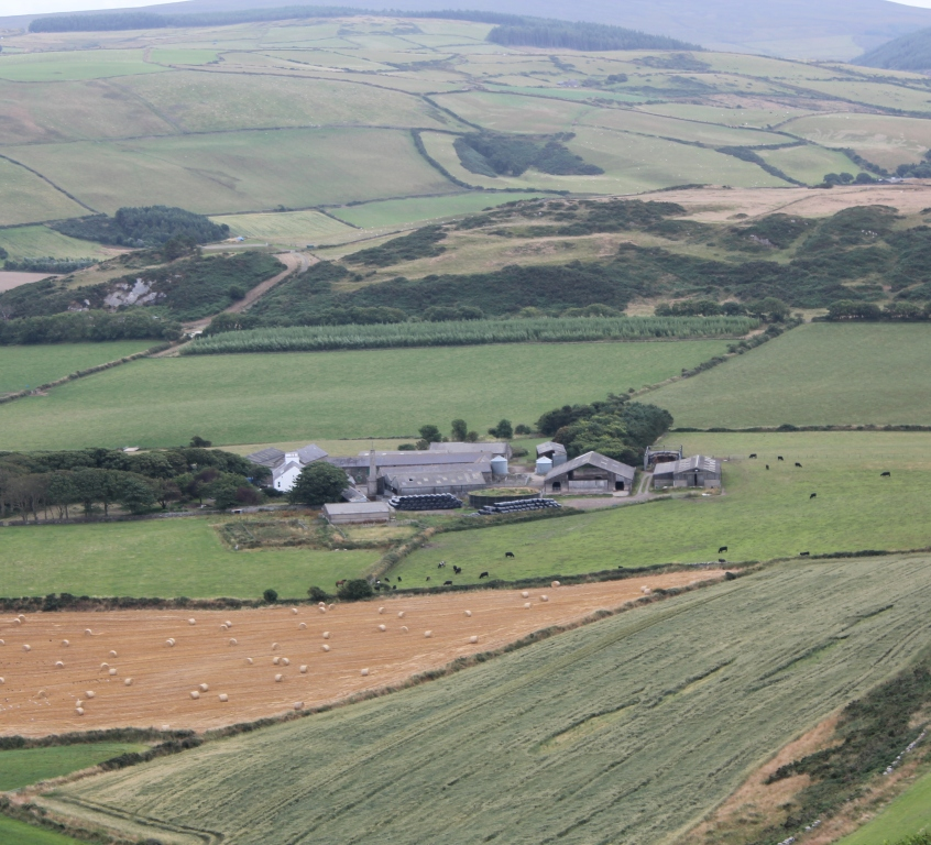 The view of Knockaloe Farm from beside Corrin's Folly, near Peel in the Isle of Man.